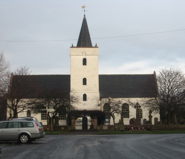 Yester Kirk at Gifford after a coat of paint